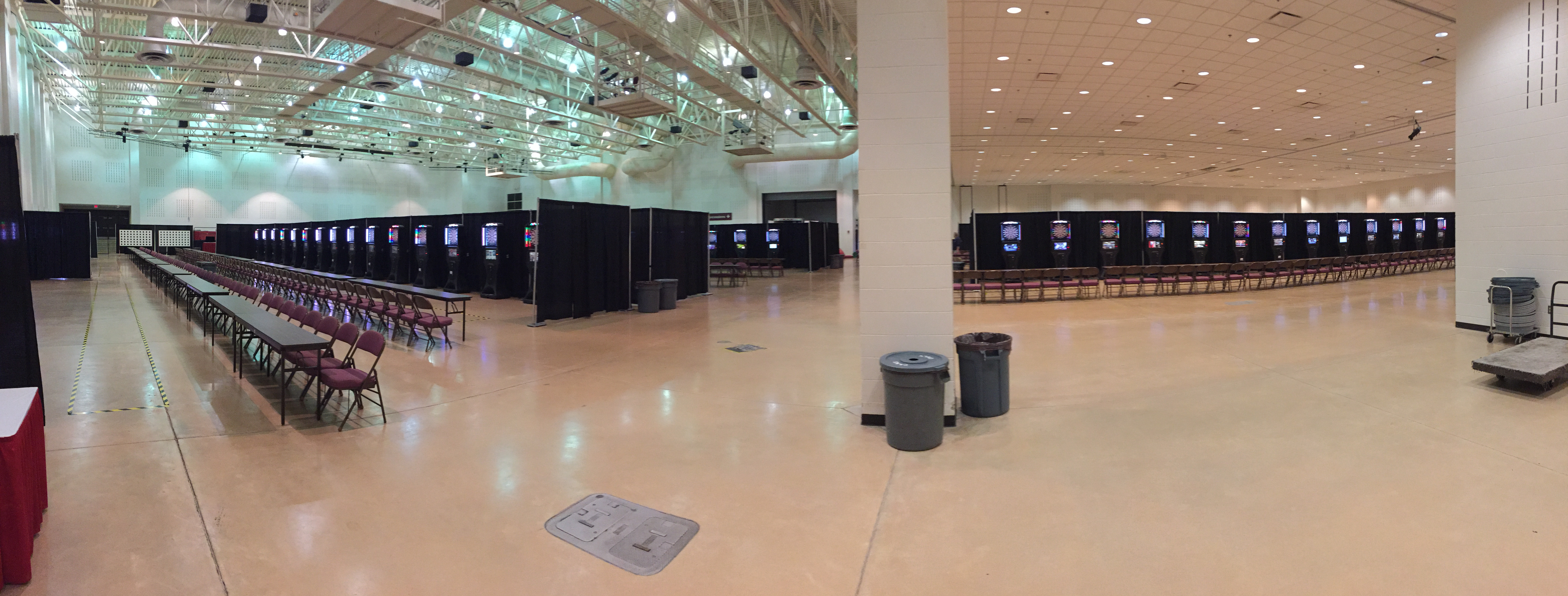 La Crosse Center South Hall set up for a dart tournament